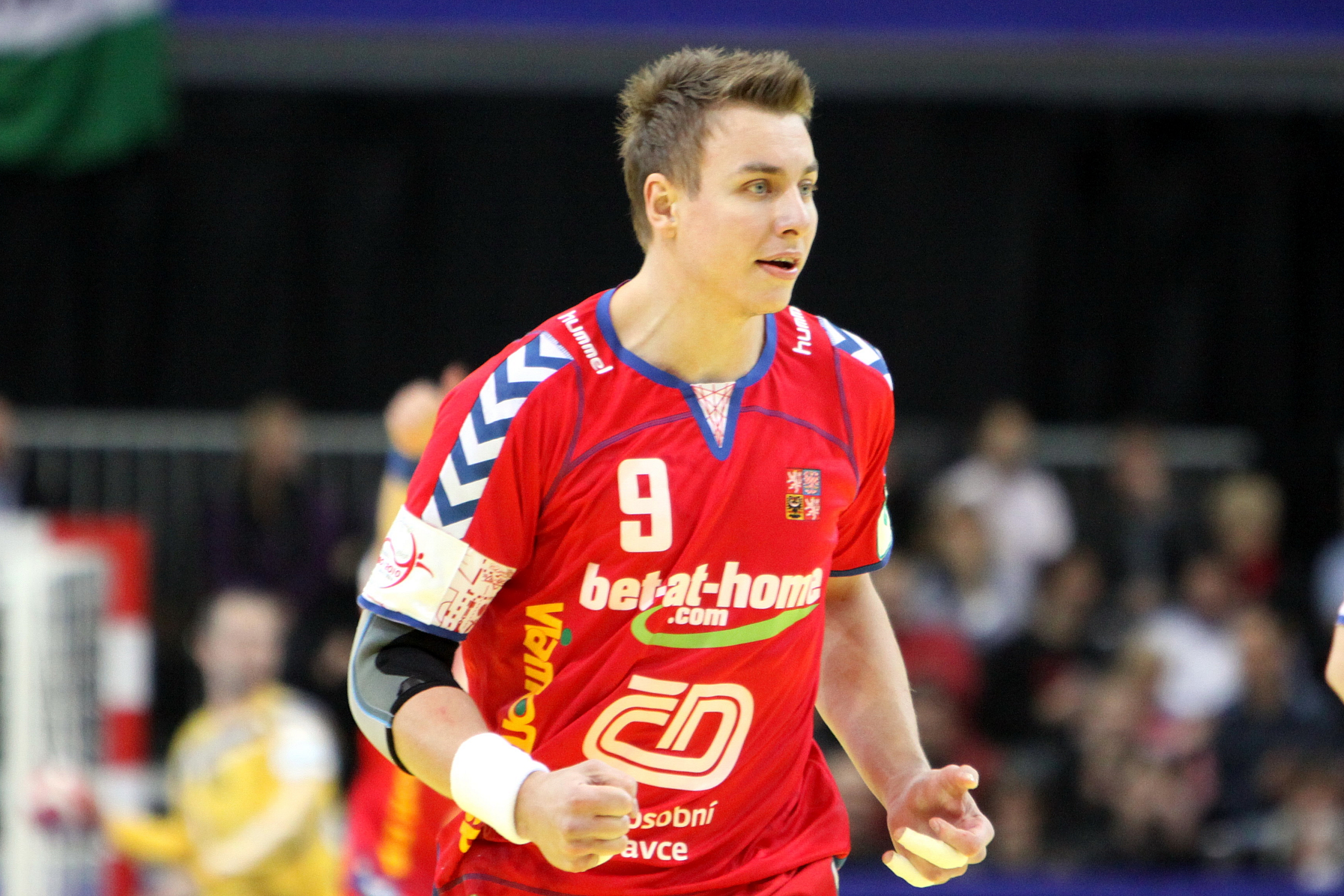 Filip Jícha (THW Kiel), Czech Republic national handball team